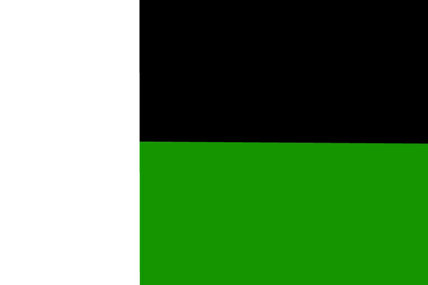 Flag of Bangladesh Islami Chattra Sena.